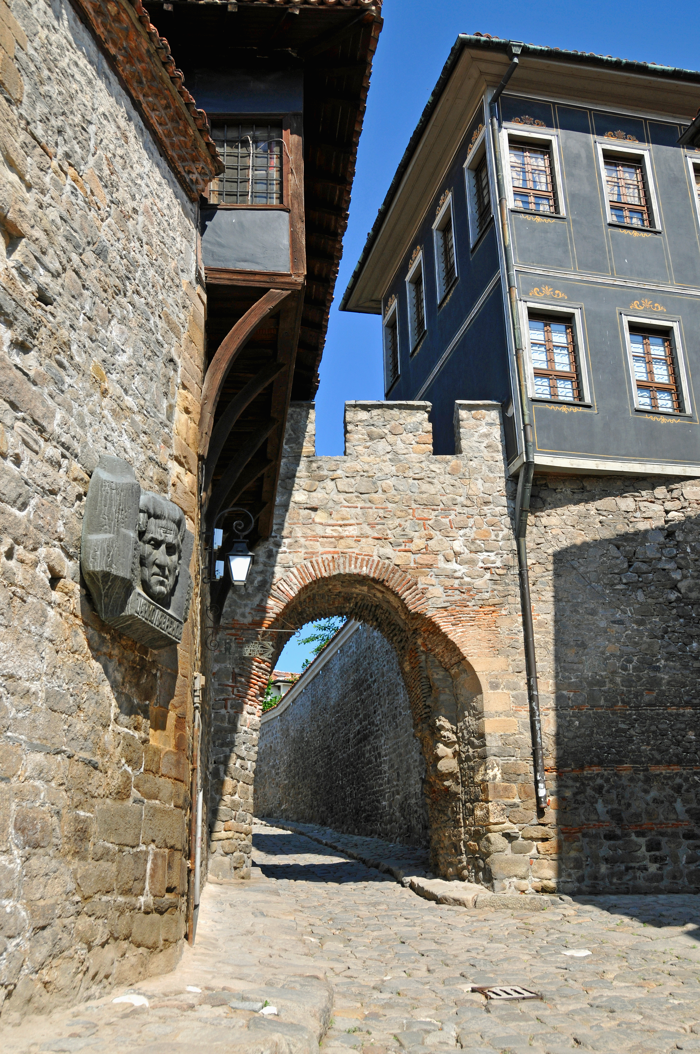 The eastern gate of three hills, Hissar Kapiya, built in the 11th-13th centuries. It is the entrance to the core of the Ancient Plovdiv Historical and Architectural Reserve. The bas-relief portrait on the wall is Tsanko Lavrenov, a great painter - one of the biggest names in Bulgarian art history and culture. He was from Plovdiv and has contributed much to the artistic legacy of the city. He campaigned for the preservation of the Old Town as an architectural and cultural reserve.